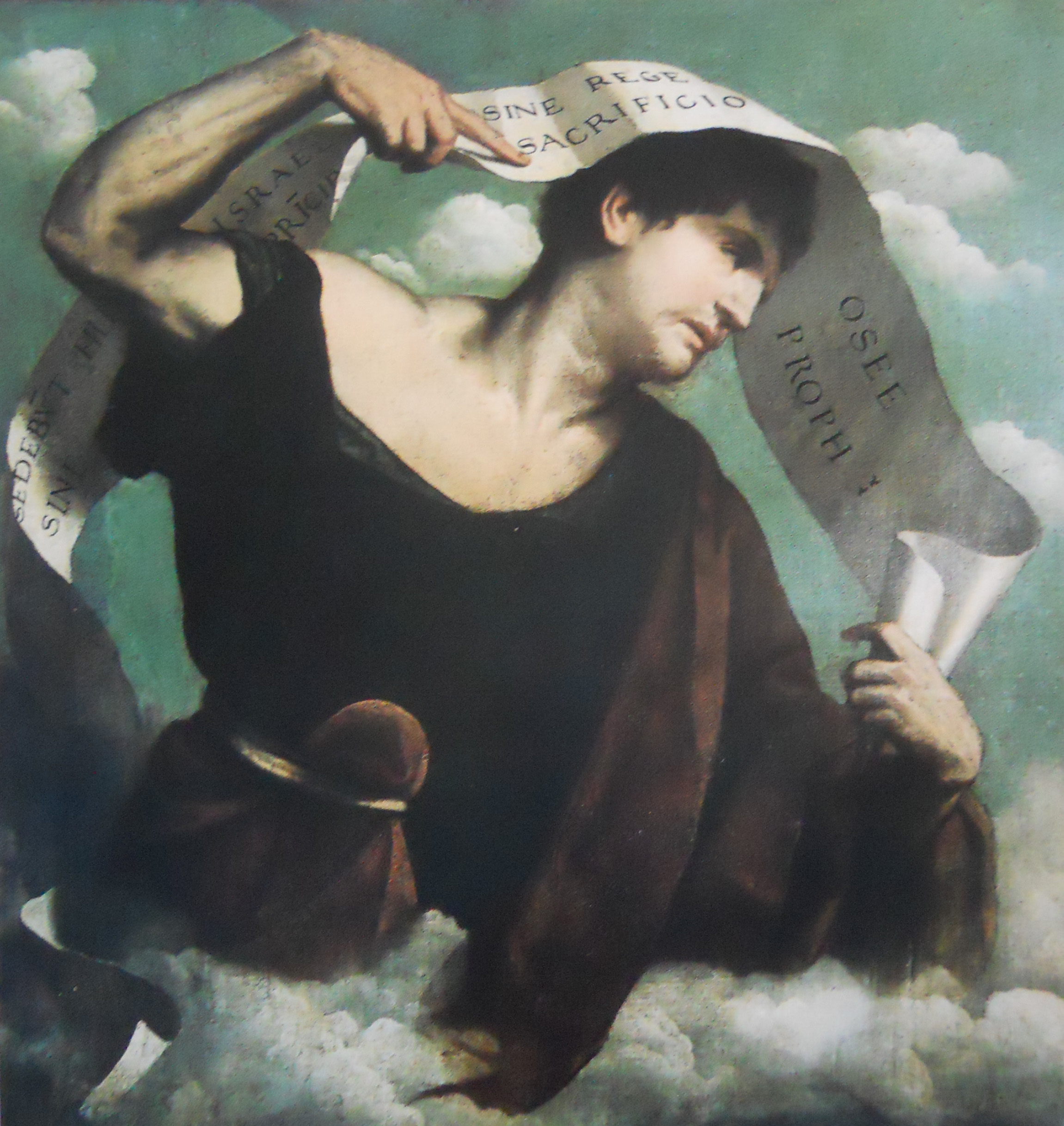 Profeta Osea